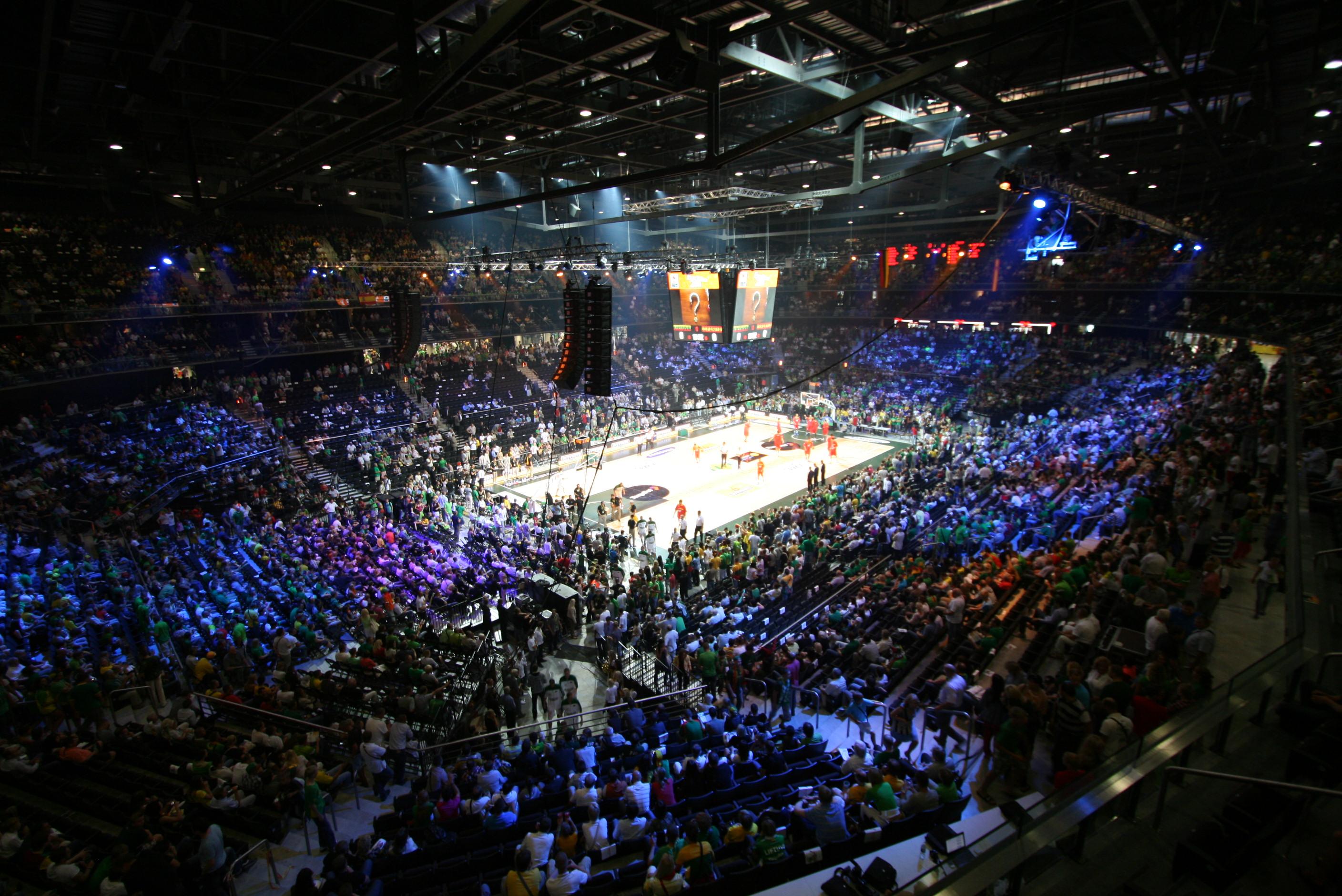 Interior of Žalgiris Arena during friendly match Lithuania-Spain